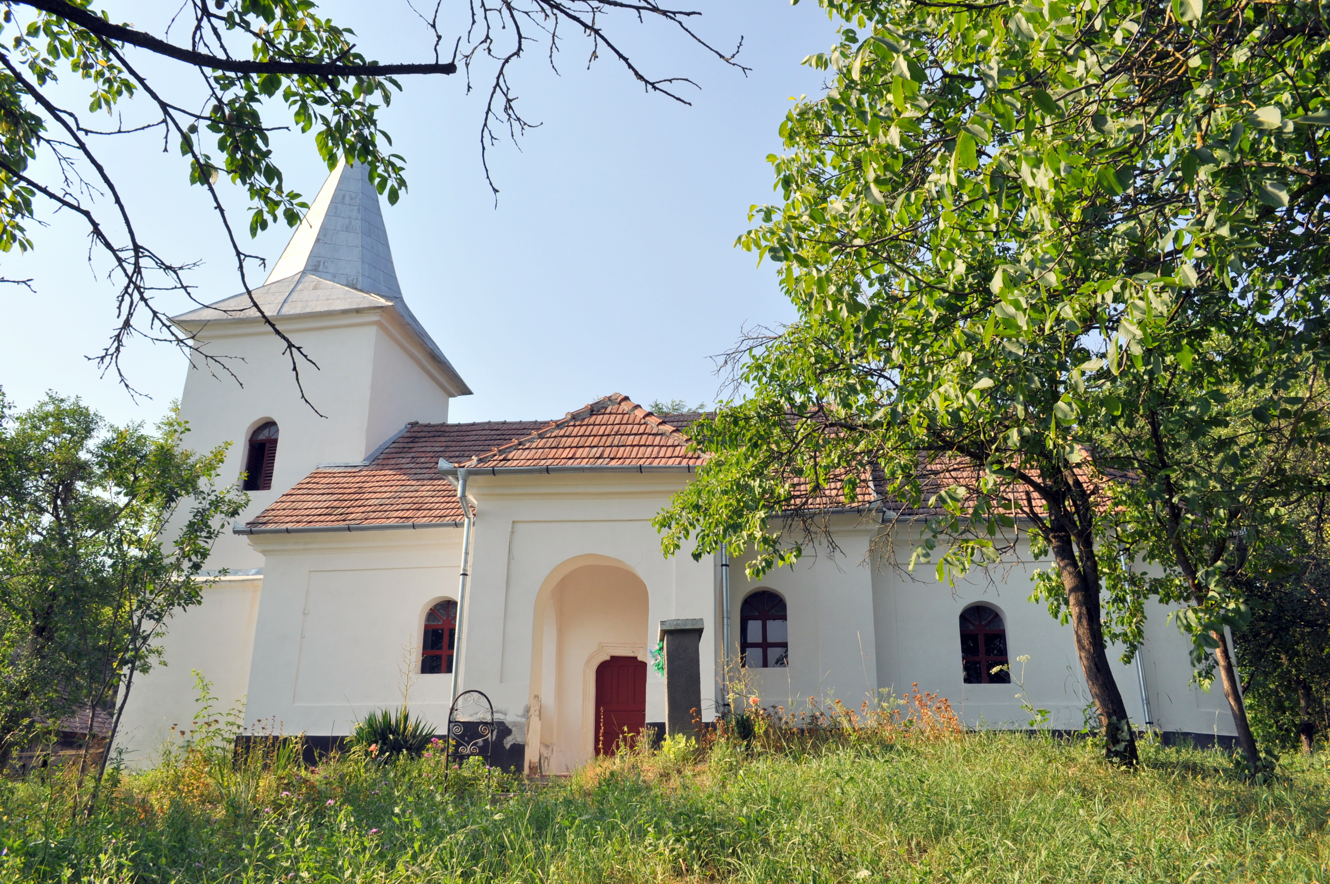 Reformed church in Comlod, Bistrița-Năsăud County, Romania